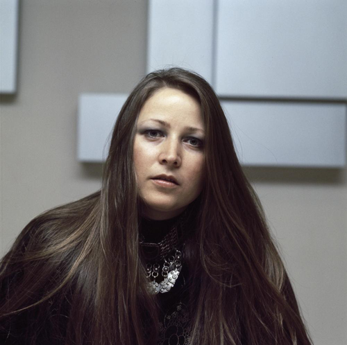 Portrait of Mariza Koch at the day of the Eurovision Song Contest 1976